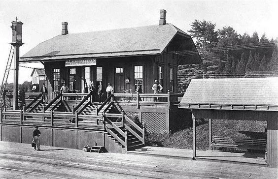 The Lehigh Valley Railroad's station at Flemington Junction in 1895. The photograph was taken by John Sunderlin (1835-1911).